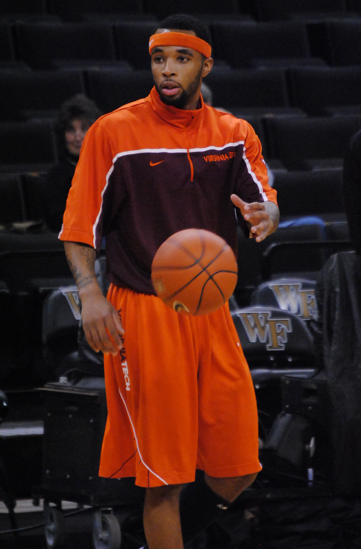 Malcolm Delaney I used this one as one of my test shots to make sure I was close on light setting. I' Still Learning